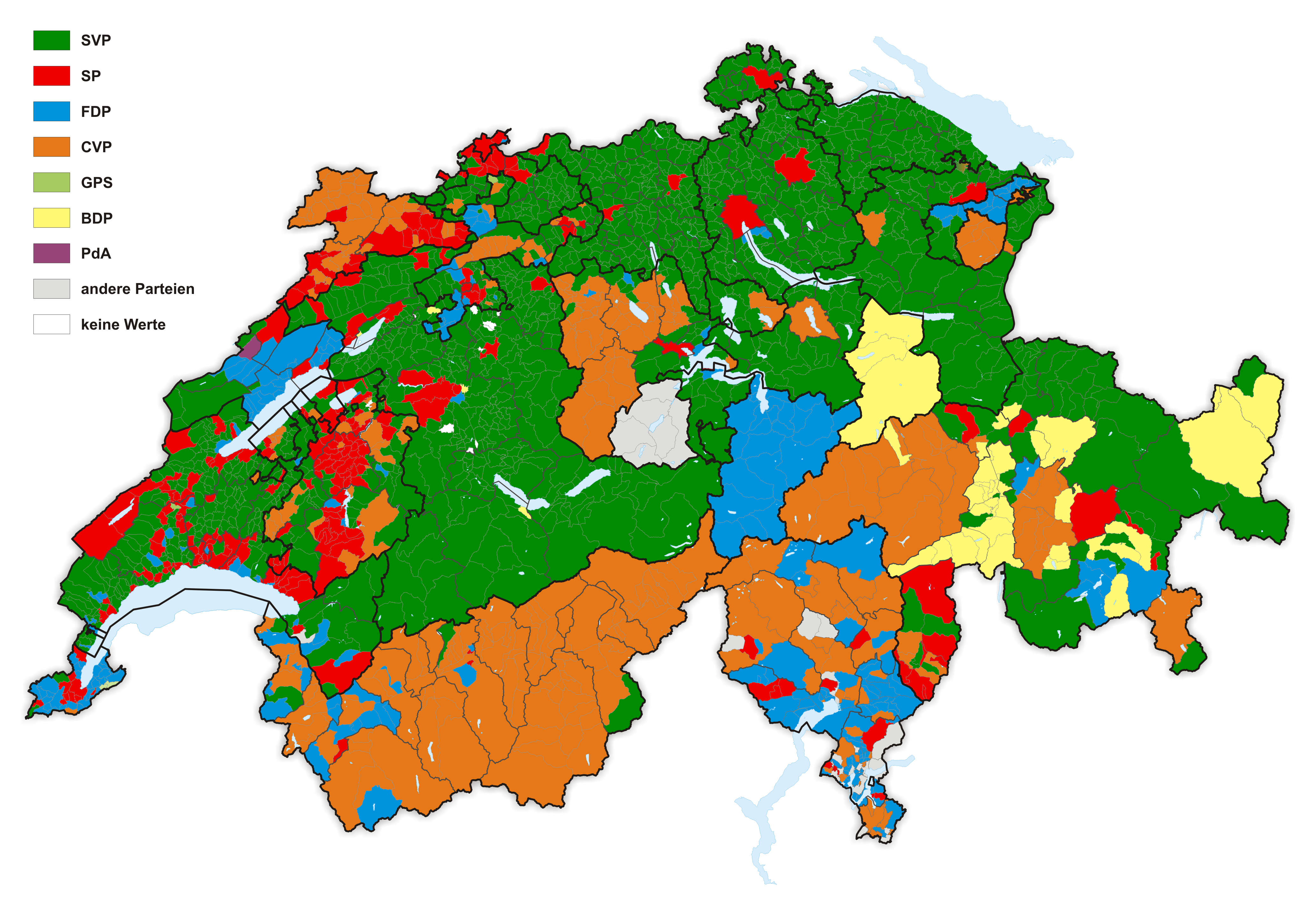 Strongest political party in the Swiss municipalities